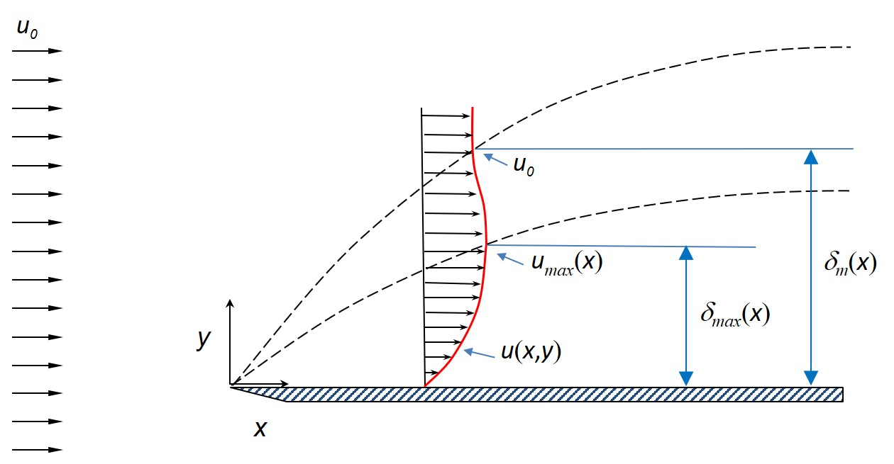 This figure is a depiction of the laminar “unbounded” boundary layer along a 2-D flat plate showing the behavior of the velocity profile. This is representative of exterior flow along a wall. The location and behavior of the location of the maximum velocity as well as the location where the profile returns to the free stream value (delta m).